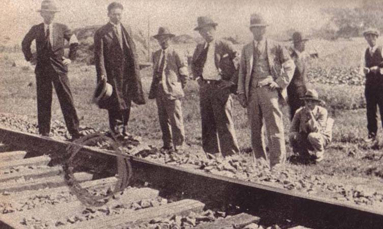 Japanese experts inspect the scene of the 'railway sabotage' on South Manchurian Railway, leading to the Mukden Incident and the japanese occupation of Manchuria.